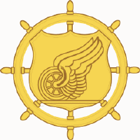 U.S. Army Transportation Corps' Branch Insignia.